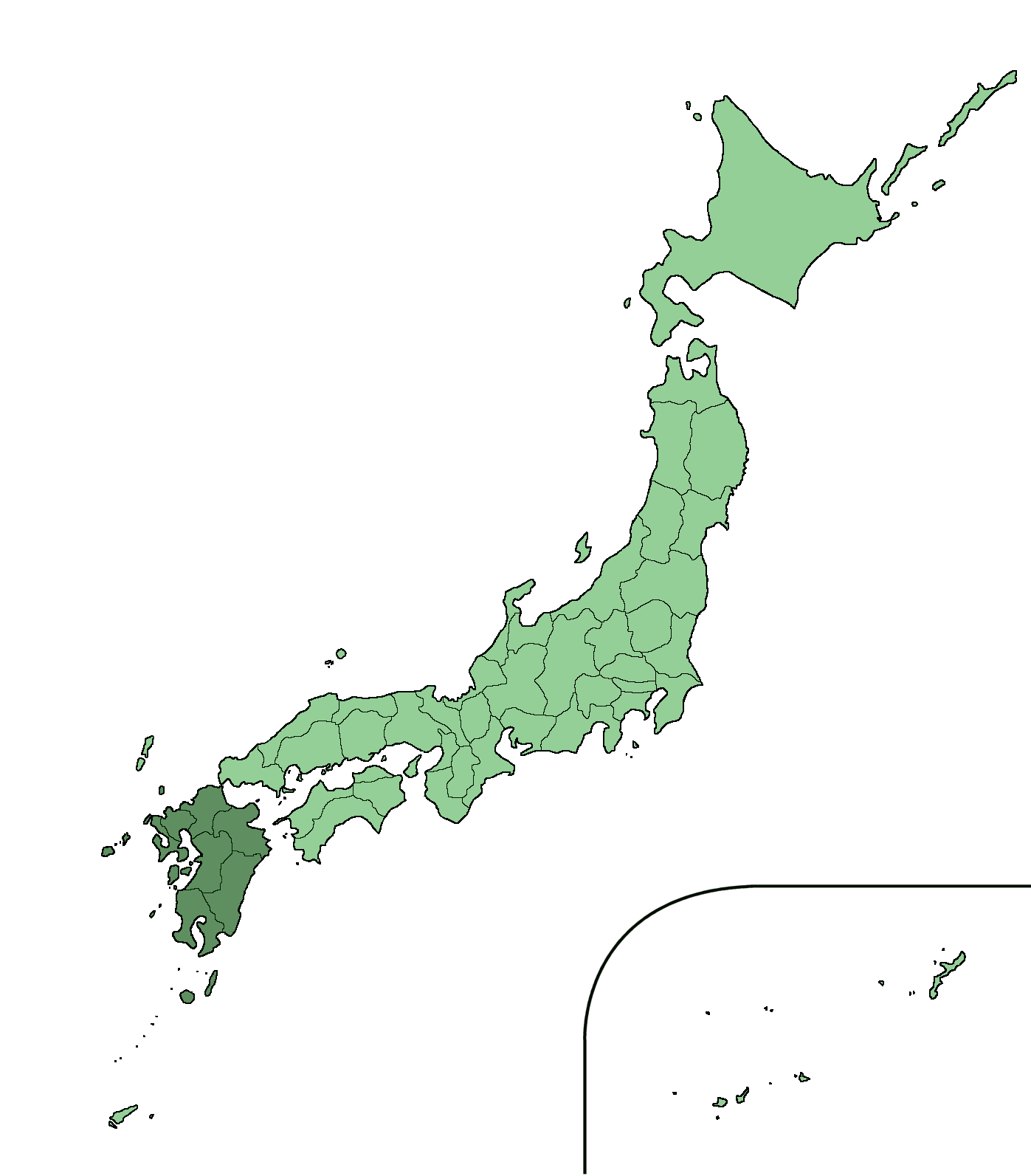 Large size map of Japan with Kyushu region highlighted, self made but originally based on Image:Japan large.png.